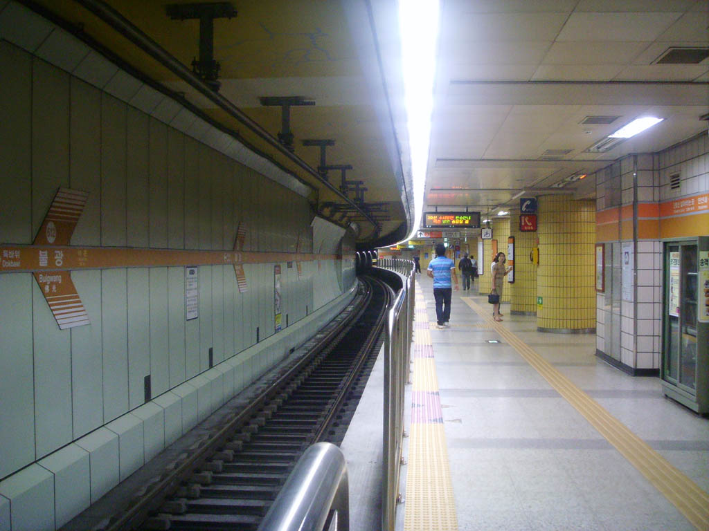 Bulgwang Station (Seoul Line 6 Platform)